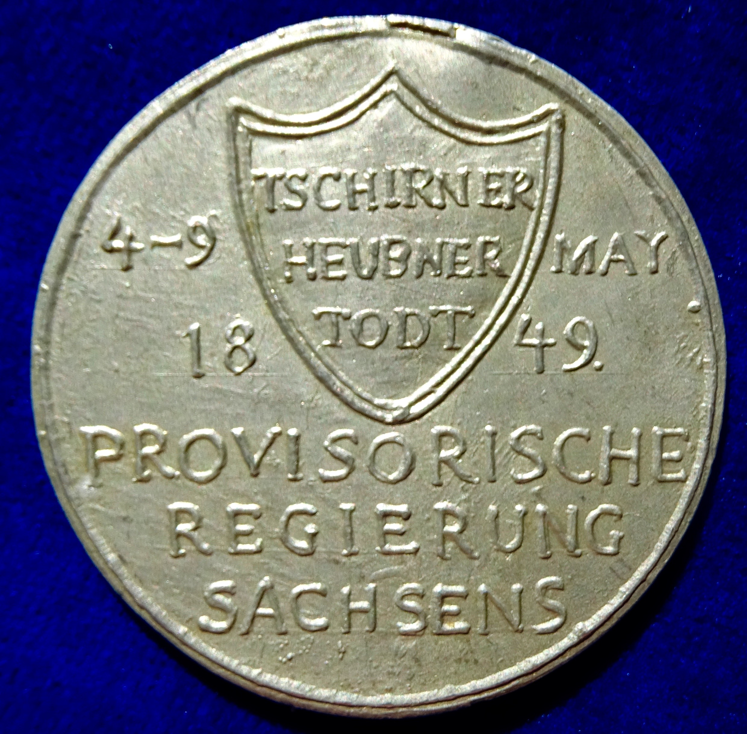 Lead, d=44 mm. 17.42 g. Very rare. The May Uprising took place in Dresden, Kingdom of Saxony in 1849; it was one of the last of the series of events known as the Revolutions of 1848. Samuel Erdmann Tzschirner, 1812 Bautzen - 1870 Leipzig and Otto Leonhard Heubner, 1812 Plauen - 1893 Dresden-Blasewitz and Carl Gotthelf Todt, 1893 Auerbach, Vogtland - 1952 Riesbach near Zürich. Fighting scene with revolutionary barricades in Dresden. In exergue: "DRESDEN". / A shield with 3 names of the leaders of the revolution "TSCHIRNER HEUBNER TODT" dividing the dates "4-9 MAY 1849". 3 lines below: "PROVISORISCHE REGIERUNG SACHSENS". Slg Vogel 7573; Slg Krug 1500. Condition: UNCIRCULATED